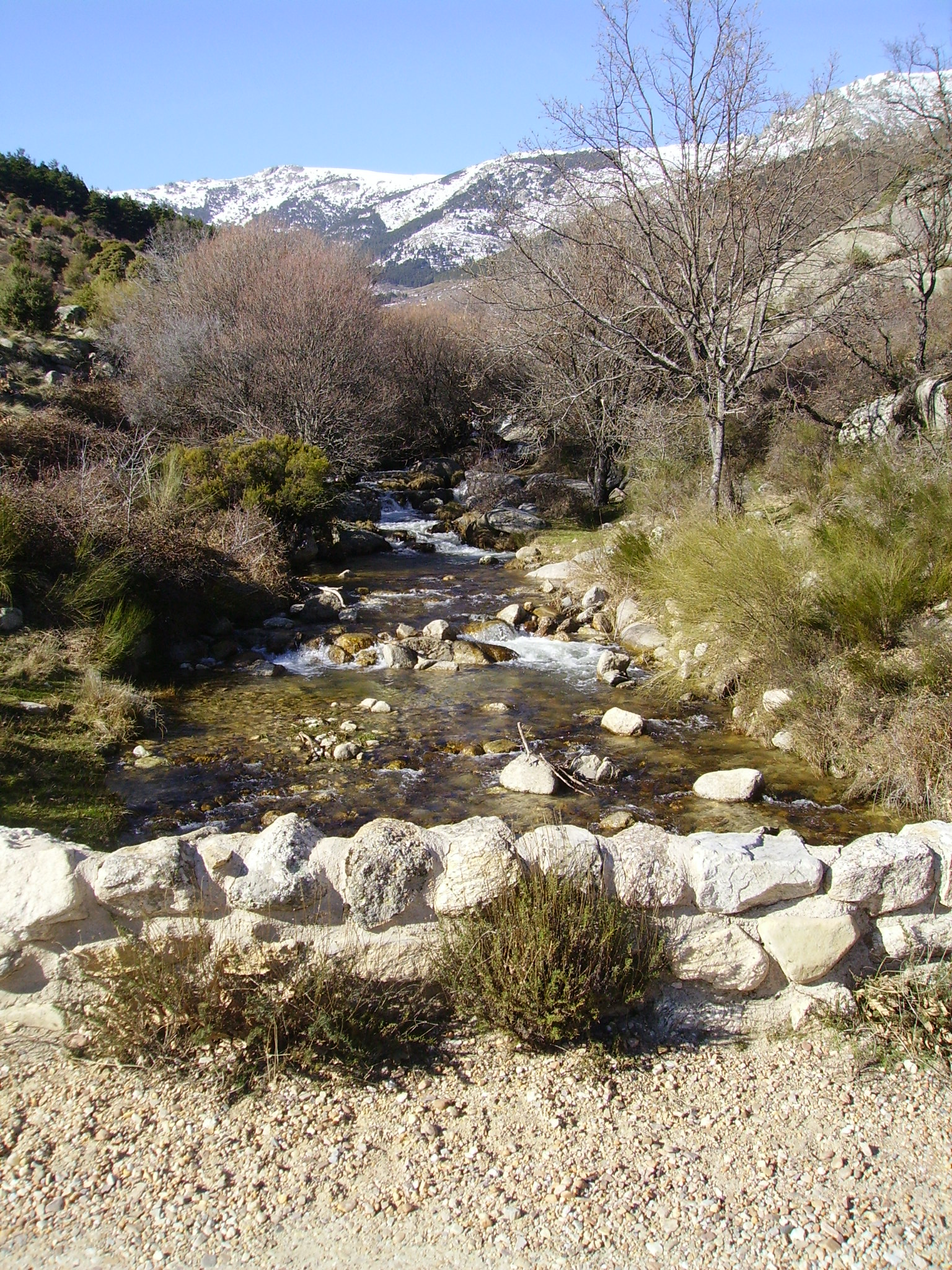 Arroyo Mediano (Mediano stream) at the end of the Hueco de San Blas valley, at Sierra de Guadarrama, Madrid, Spain.